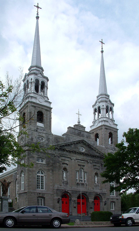 View, looking northeast, of Église Sainte-Geneviève, located in the village of Sainte-Geneviève, Quebec. Photographed on June 23, 2006 by Bill Wrigley.